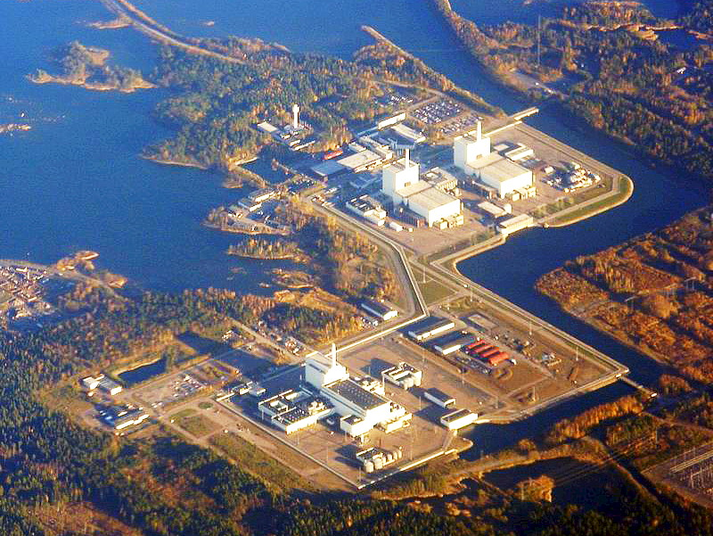 The Forsmark nuclear power plant in Sweden.